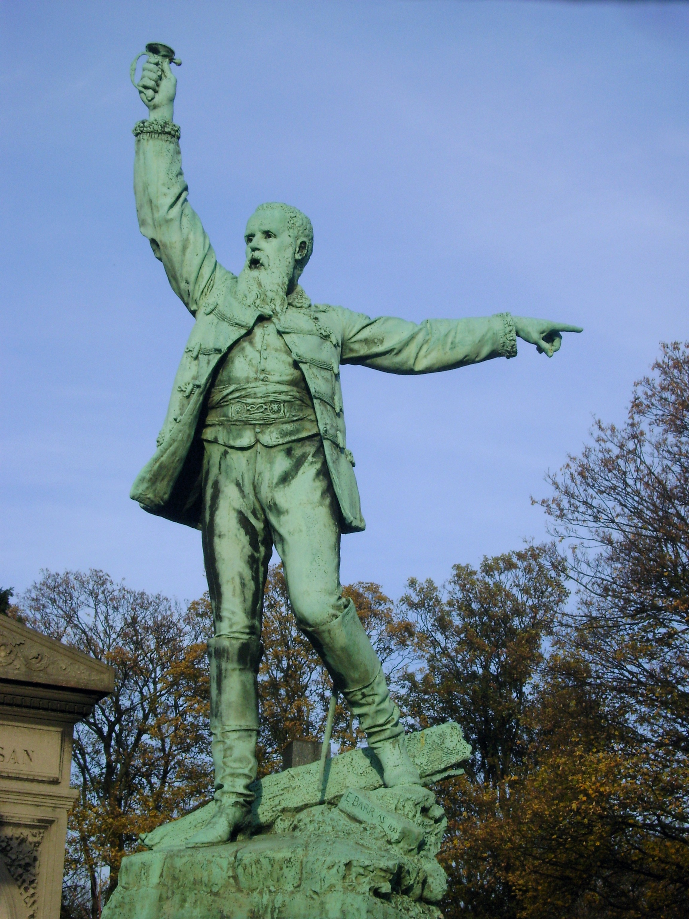 Grave of Anatole de la Forge, Cemetery Père-Lachaise - Division 66